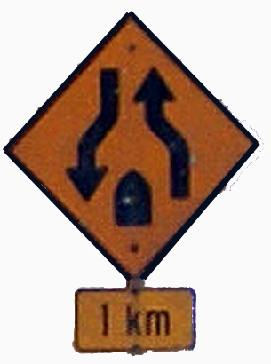 Twinned highway ends. No more meridian in the middle of the road will happen in one kilometer.